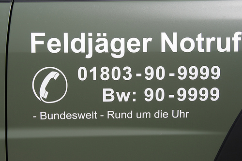 Feldjäger (German Military Police) Emergencycall Number Feldjäger Notrufnummer (kostenfrei)